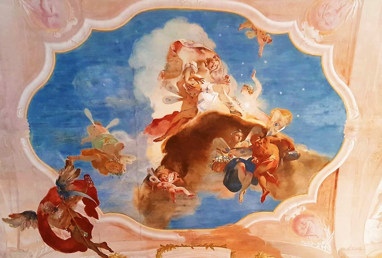 Triumph of Aurora - Fresco ceiling of the noble hall of Villa Baglioni in Massanzago.